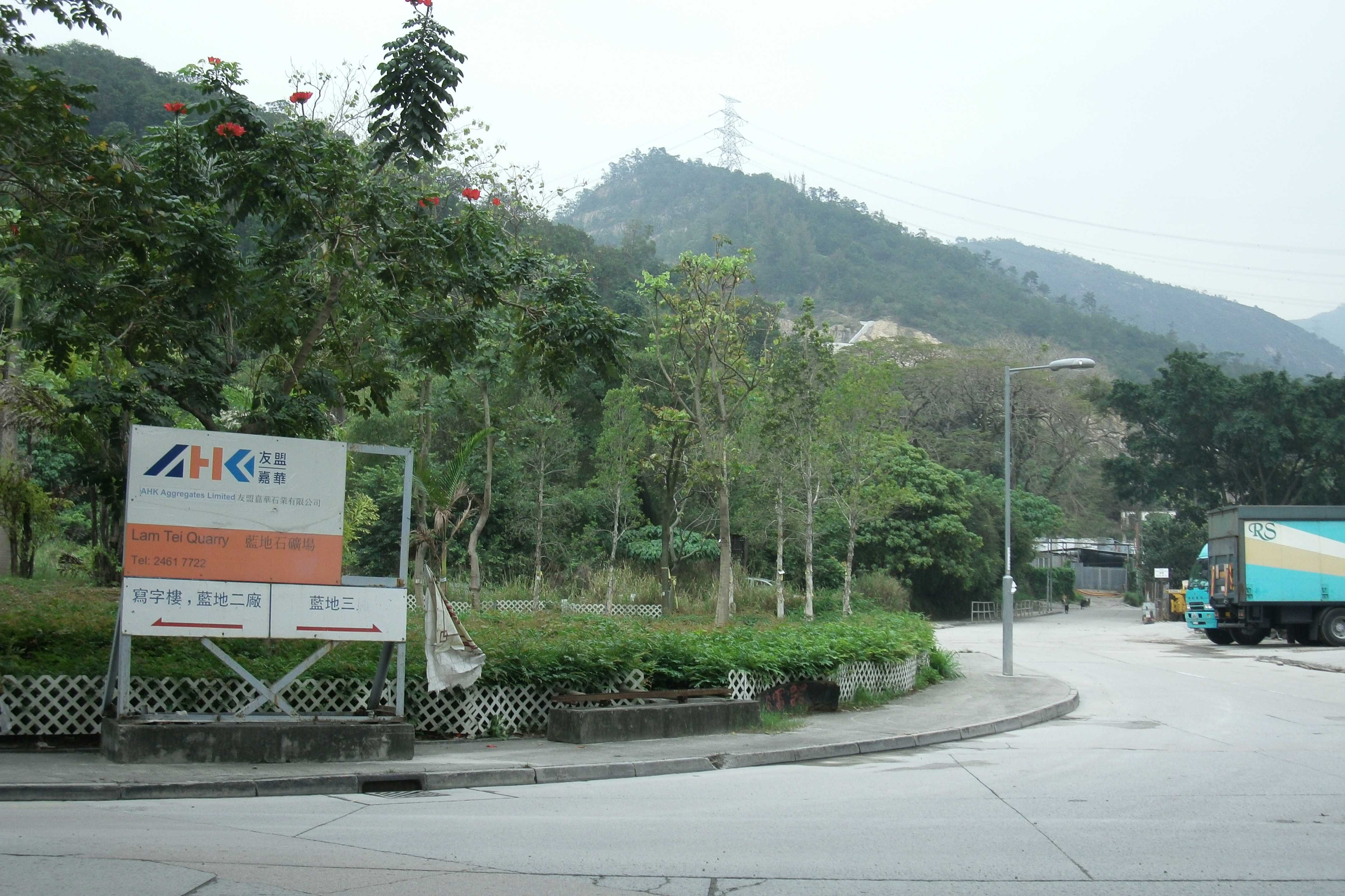 Lam Tei Quarry entry